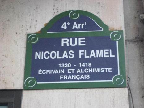 Street sign of Rue Nicolas Flamel in Paris, 4th Arrondissement